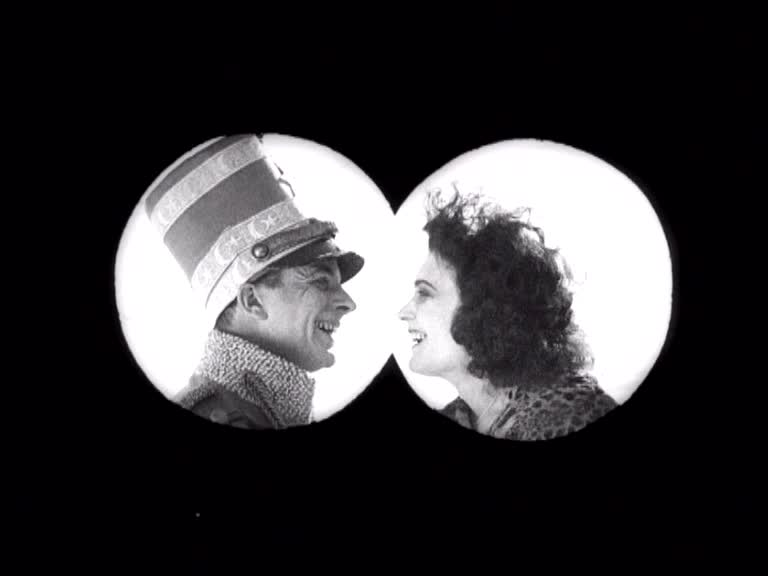 Screenshot of Paul Heidemann and Pola Negri from the film of Ernst Lubitsch The Wild Cat (Die Bergkatze) (1921).